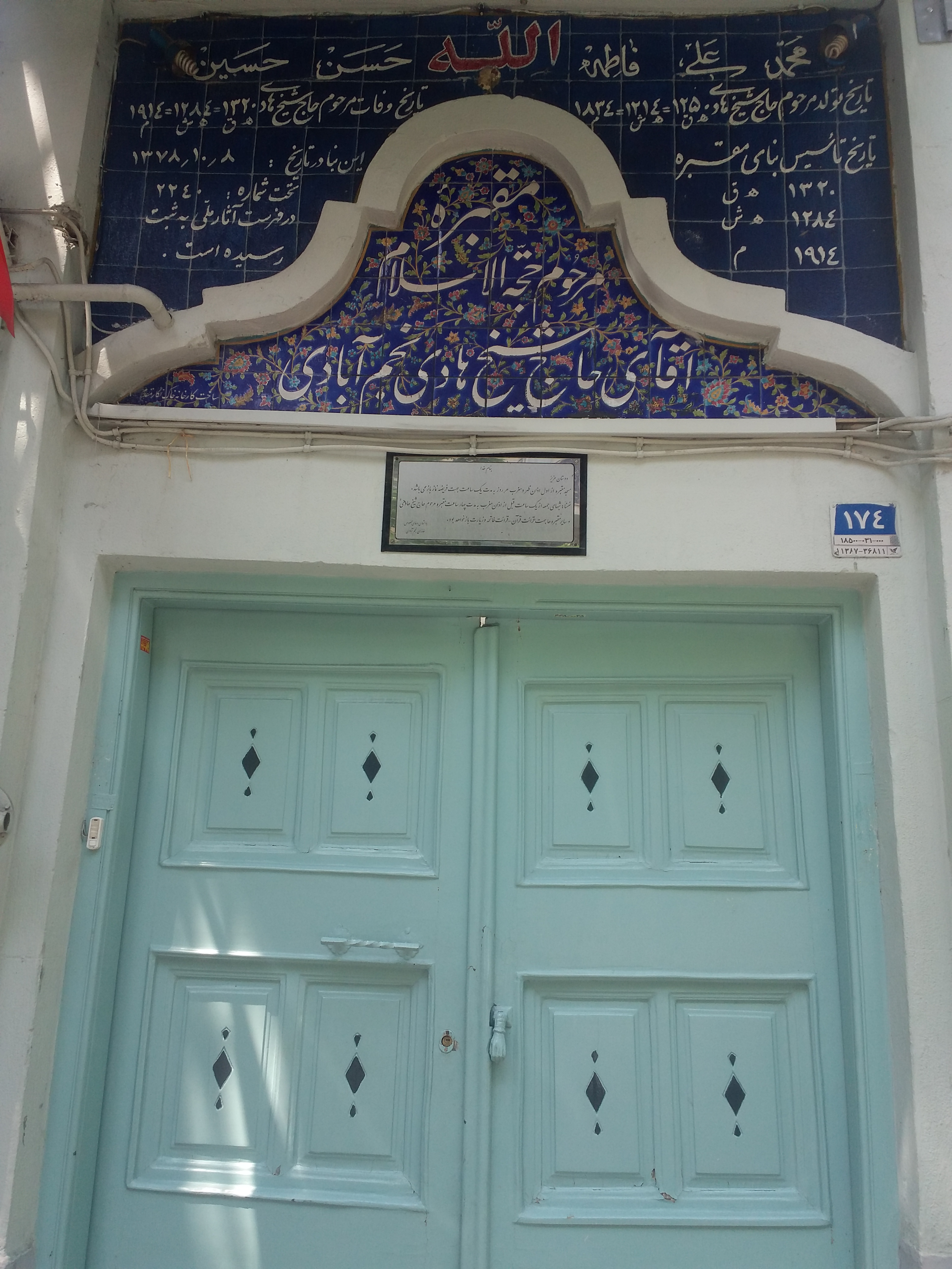 Sheikh Hadi Najmabadi's house and tomb